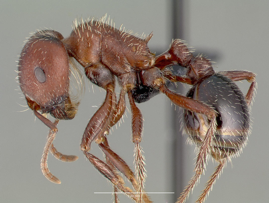 Profile view of ant Pogonomyrmex bicolor specimen casent0006274.